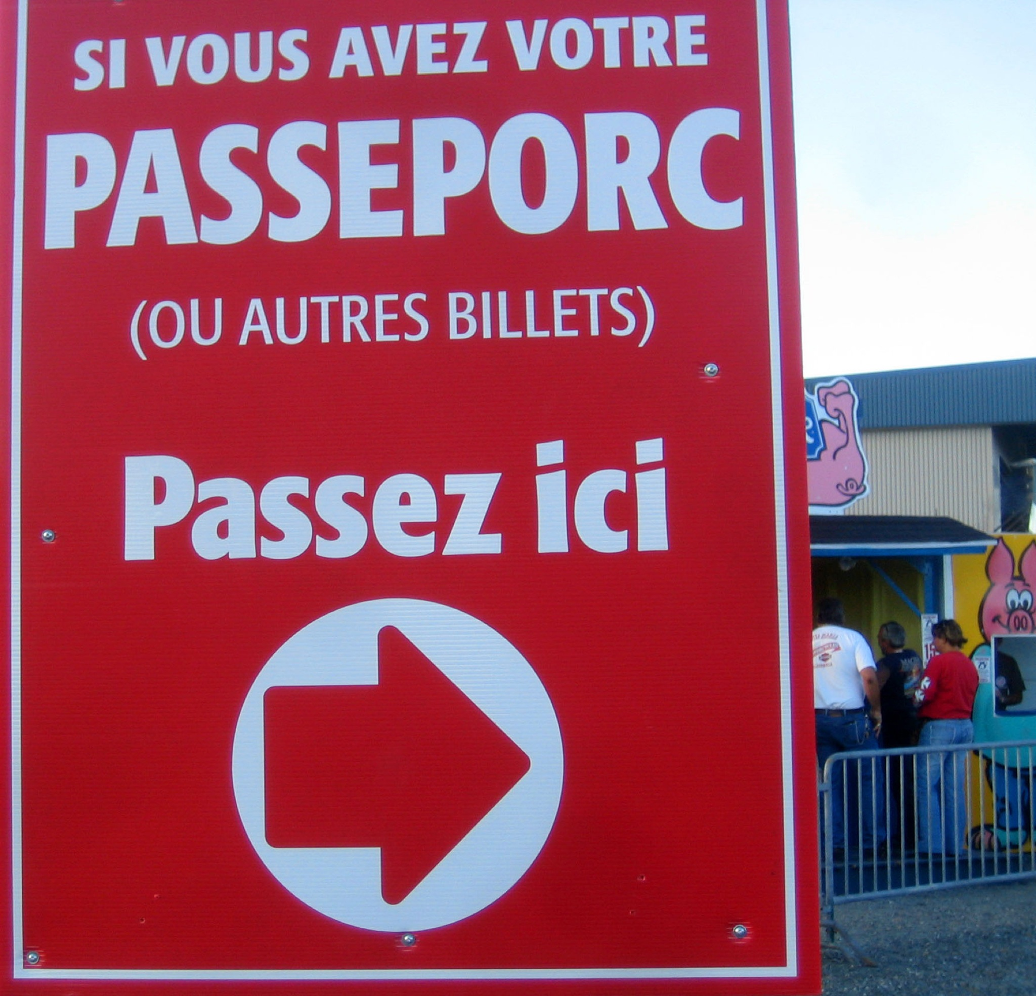 30th Festival du cochon ("Pig Festival") de Sainte-Perpétue, in Sainte-Perpétue, Québec, 4 August 2007.